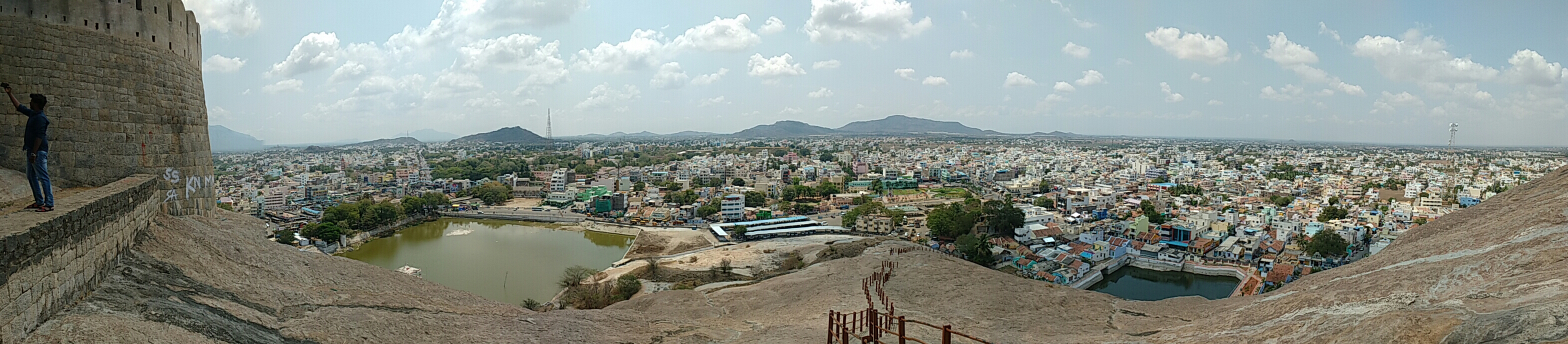 Panorama view of Namakkal city from hillock ( Rock fort )